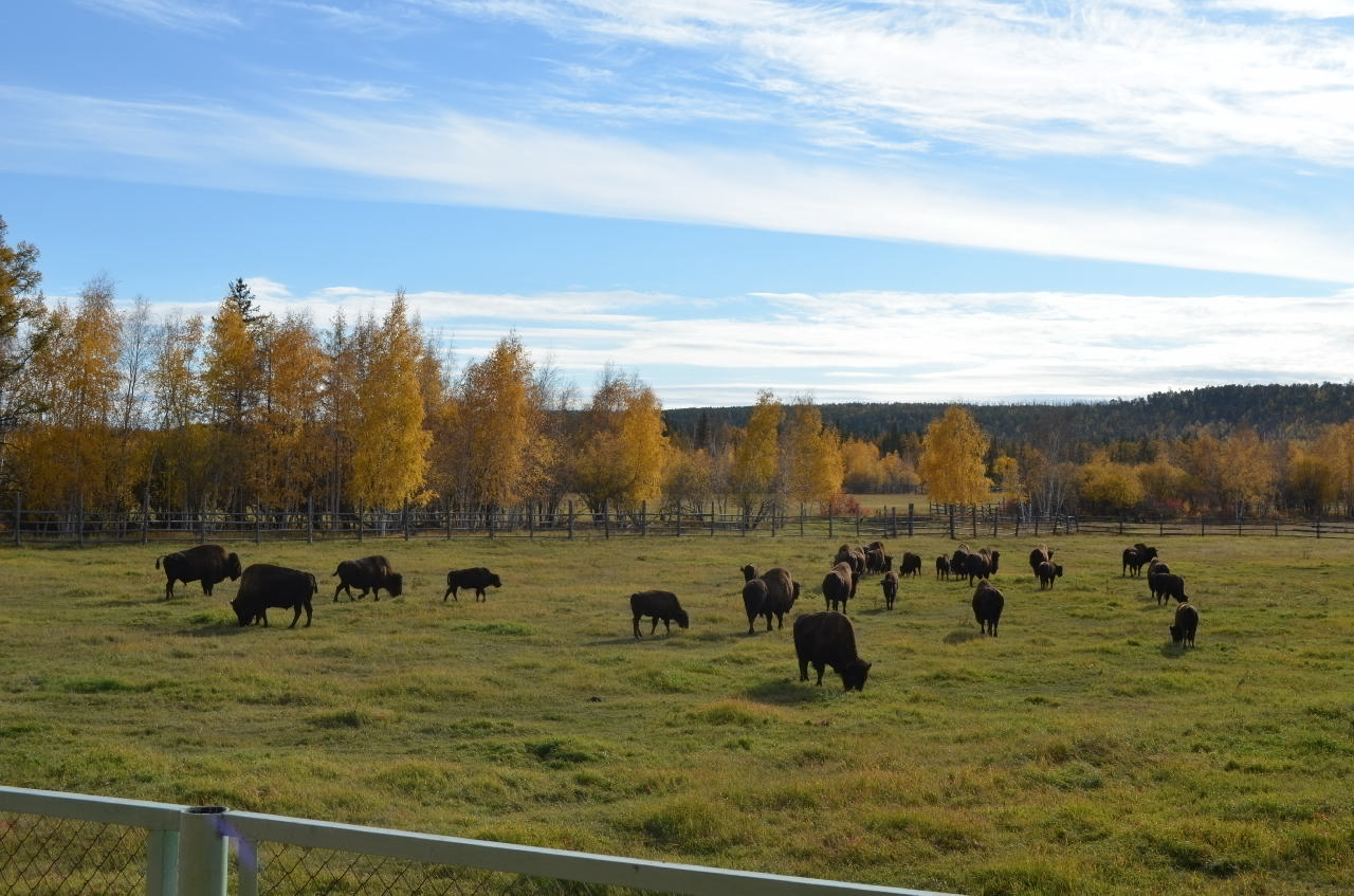 This photos are made during cruise Yakutsk — Lеnskiye Shchyoki, Lena Cheeks — Yakutsk (with arrival in Mirny), 05.09−17.09.2016